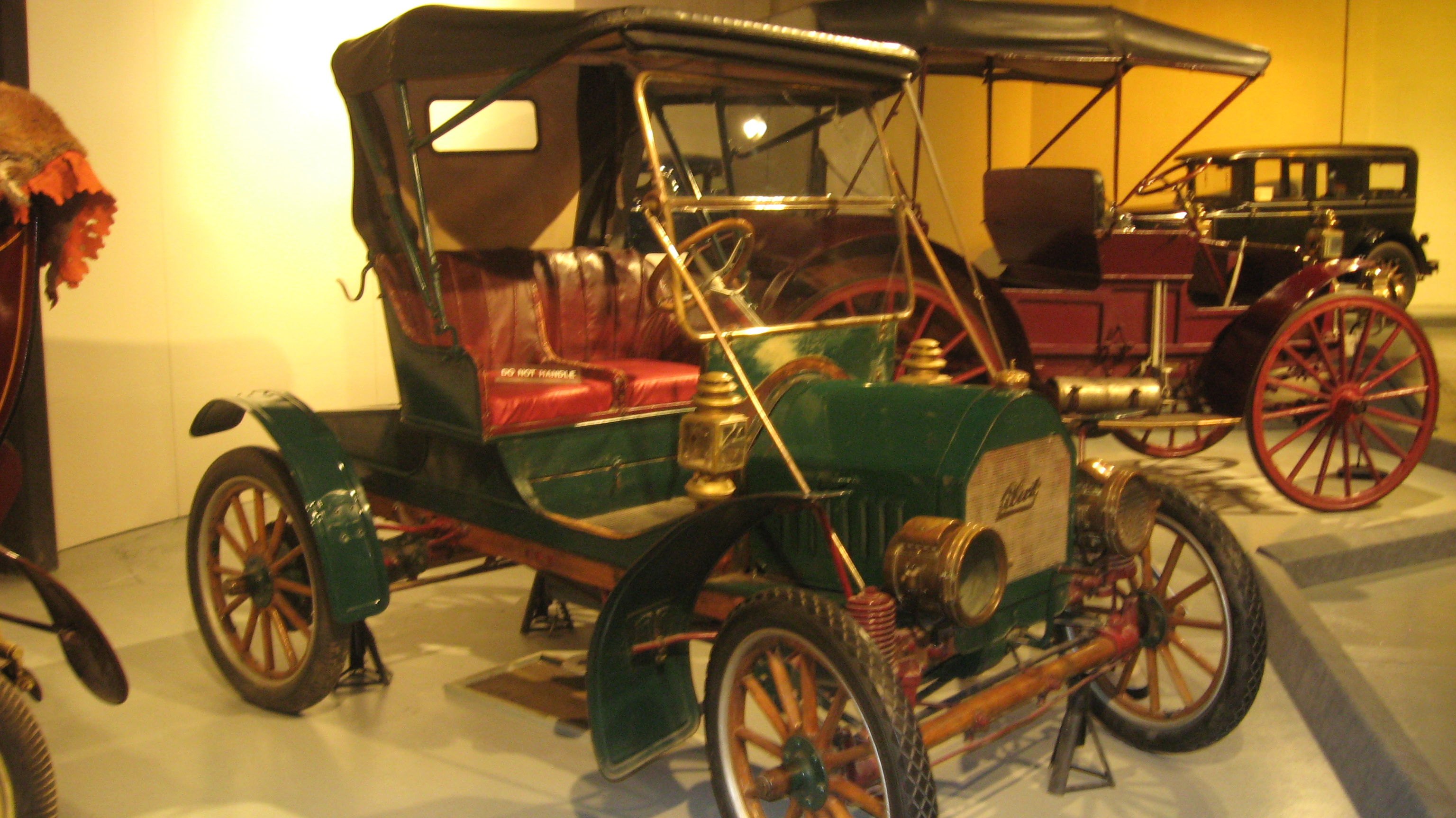 1912 Brush runabout, owned by a Saskatoon resident in the era. Shot at local museum.